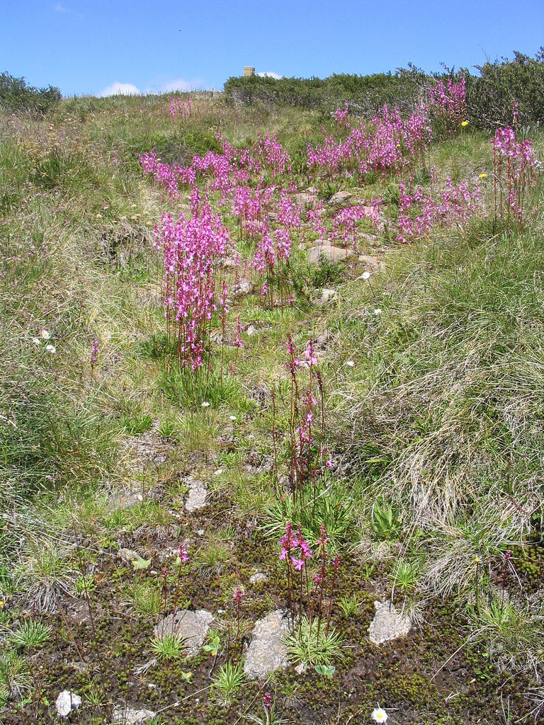 Unidentified pink flowers and other alpine plants in Kosciuszko National Park. New South Wales, Australia. (Stylidium sp.)